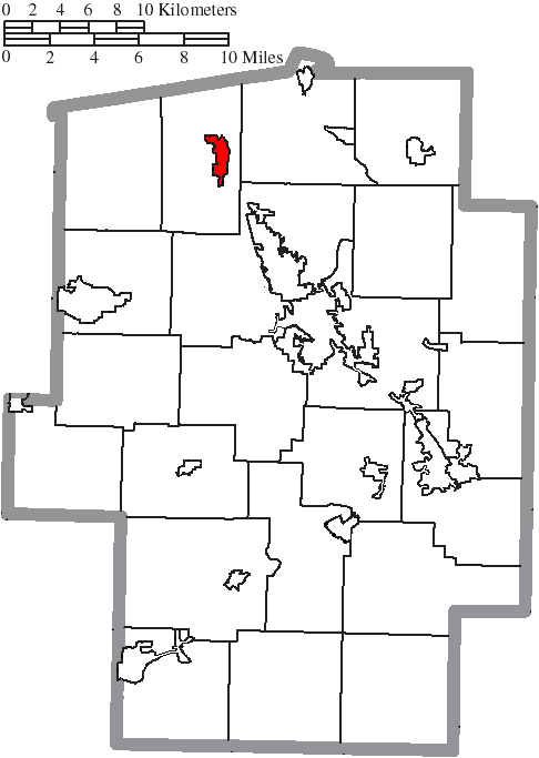 Map of the municipal and township boundaries of Tuscarawas County, Ohio, United States, as of the 2000 census, with the location of the village of Strasburg highlighted. Township borders are shown only in unincorporated areas in order to differentiate incorporated and unincorporated areas more clearly.